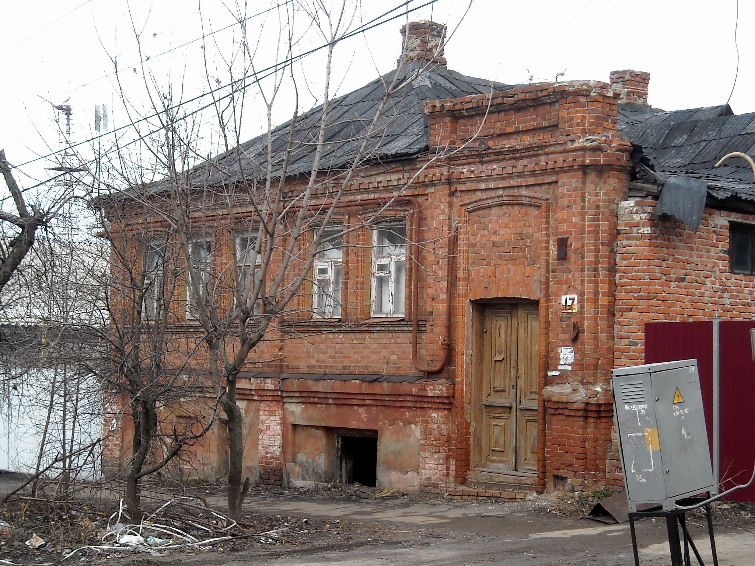 House of Kazimir Malevich in Kursk